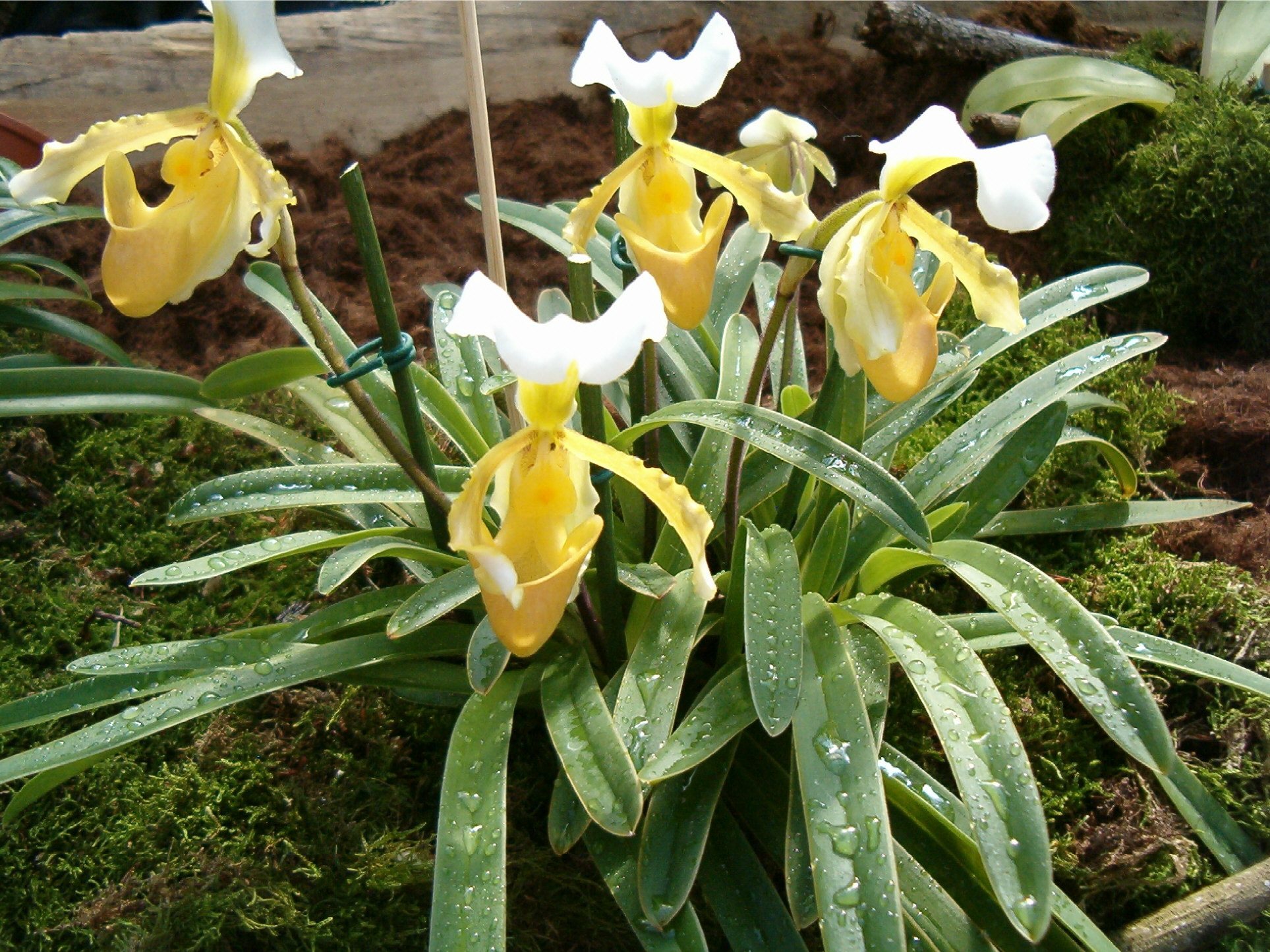 Paphiopedilum barbigerum, Habitus and Flowers Location: Botanical Gardens Berlin - Orchid Exhibition